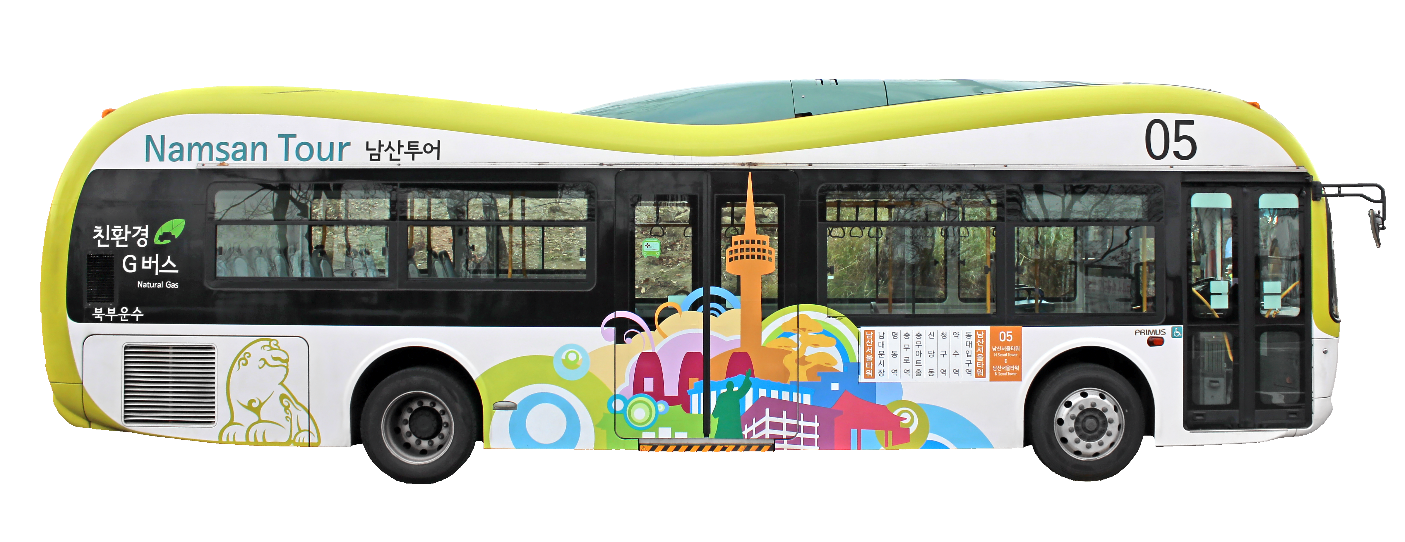 Hankuk Fiber Primus